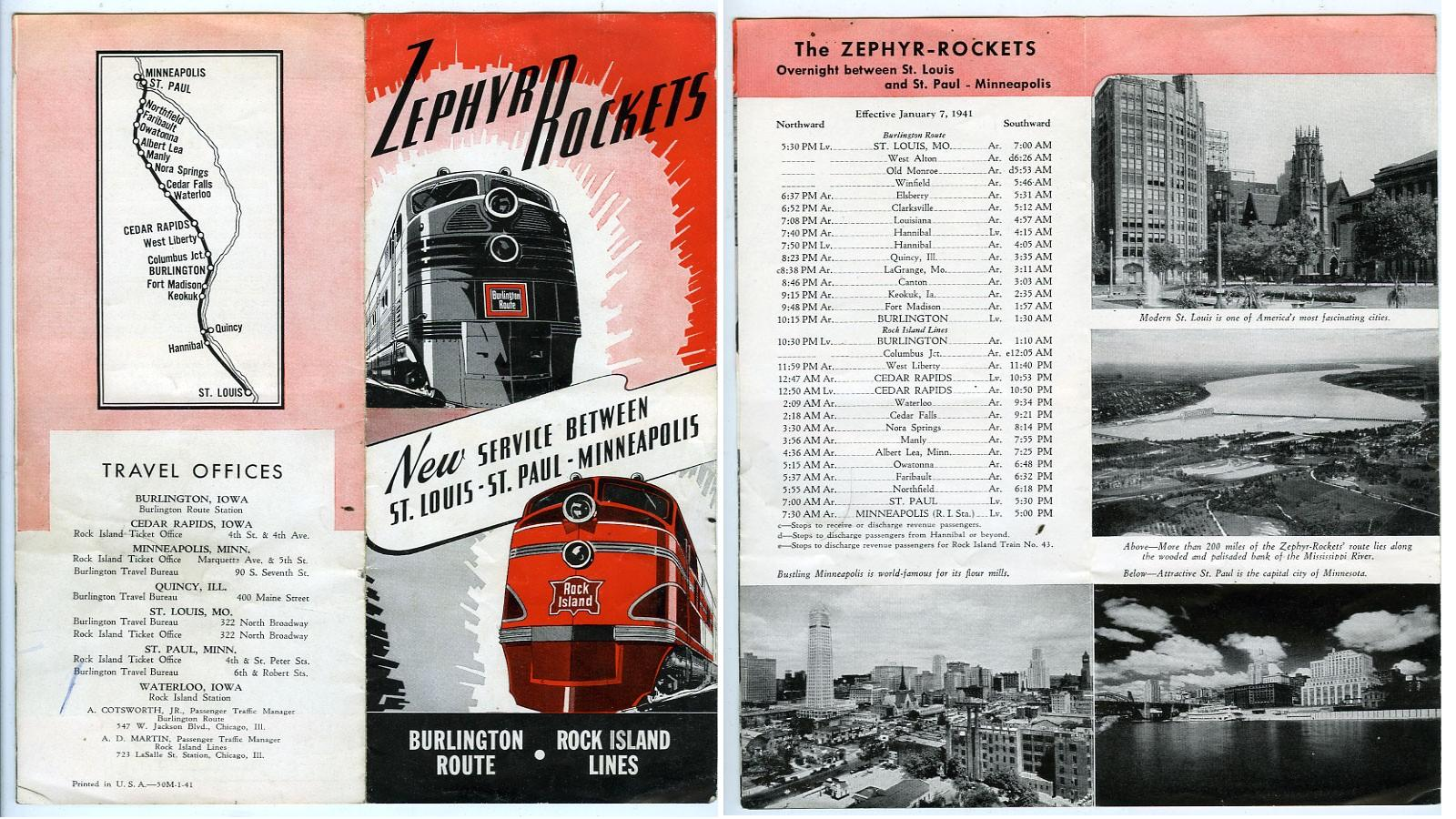 Timetable/brochure for the jointly operated Zephyr Rockets. The Chicago, Burlington and Quincy and Rock Island Railroads operated this route between St. Louis and Minneapolis/St. Paul from January 7, 1941 until 1967.